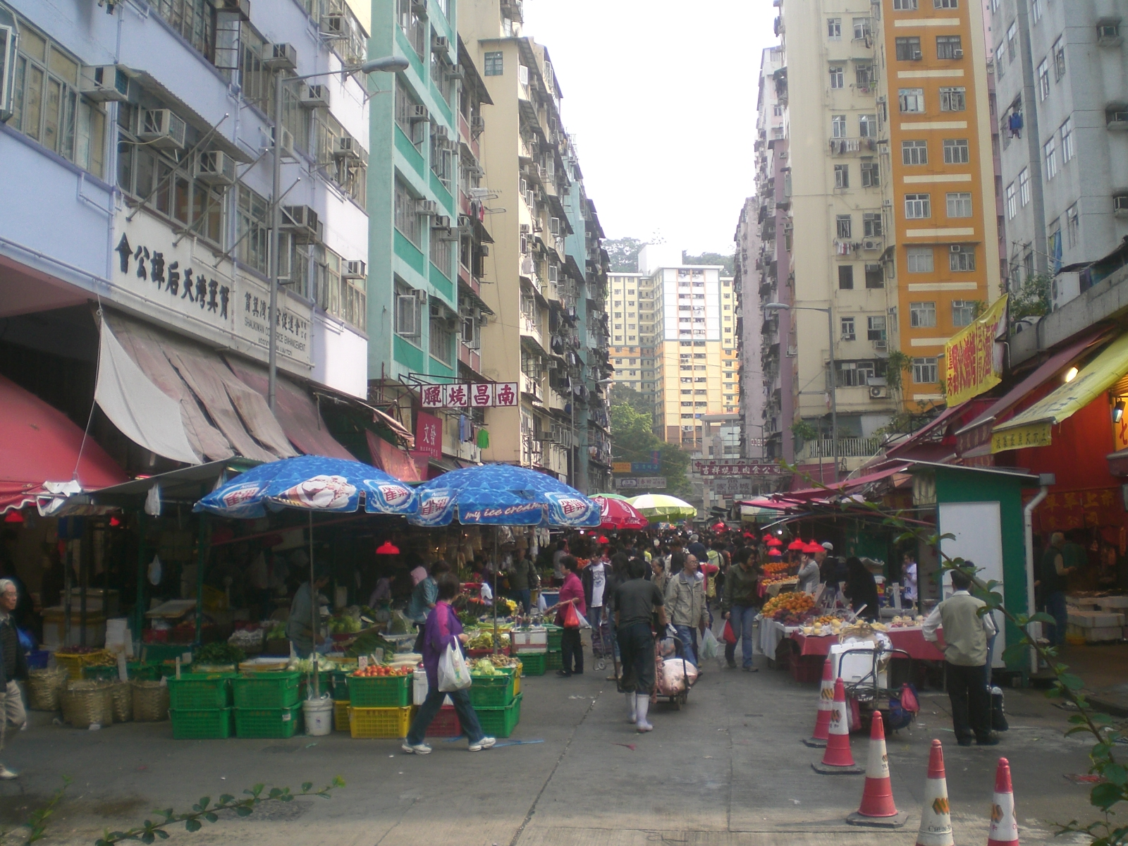 筲箕灣金華街